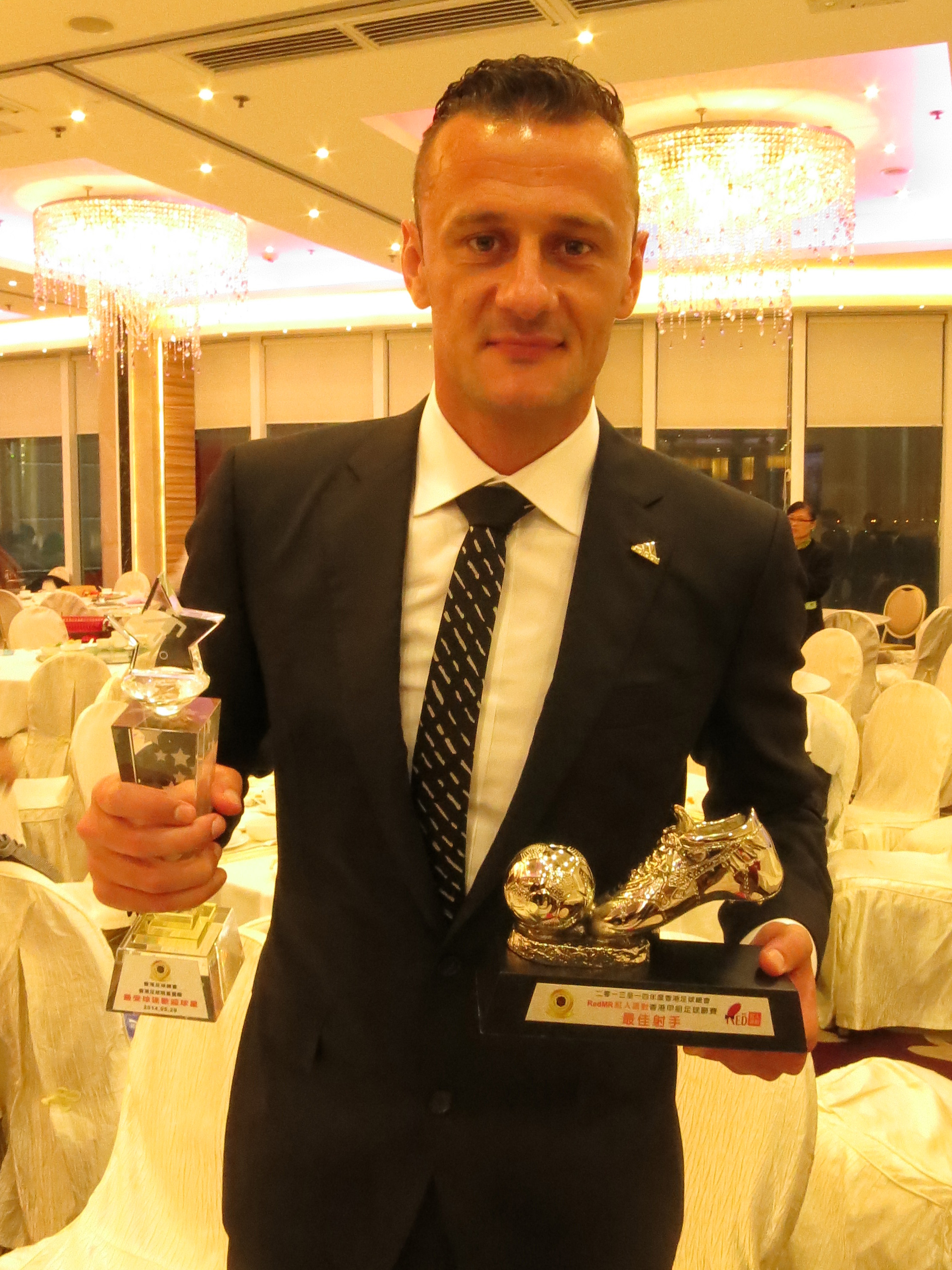 Admir Raščić with some of his accolades at the 2013/14 HKFA Annual Dinner Award Ceremony